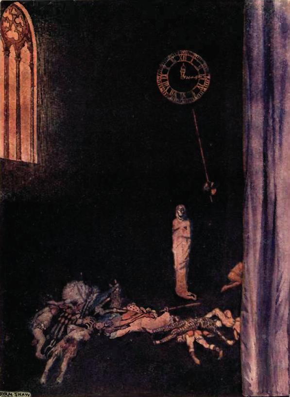 Byam Shaw's illustration for Poe's The Masque of the Red Death in "Selected Tales of Mystery" (London : Sidgwick & Jackson, 1909) on the page to face p. 152 with caption "Darkness and decay and the red death held illimitable dominion over all"